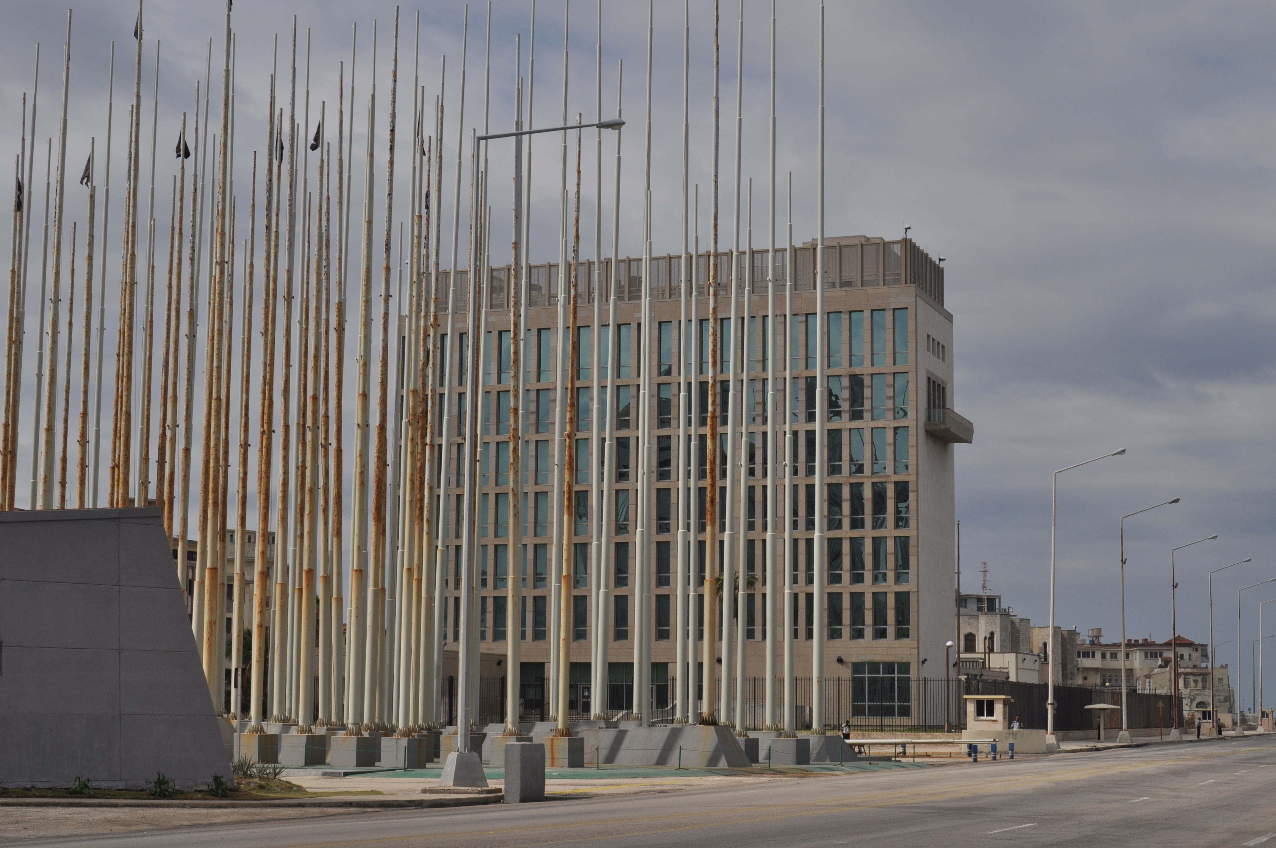 United States Embassy in Havana (former U.S. Interests Section of the Swiss Embassy in Havana) with flagpoles